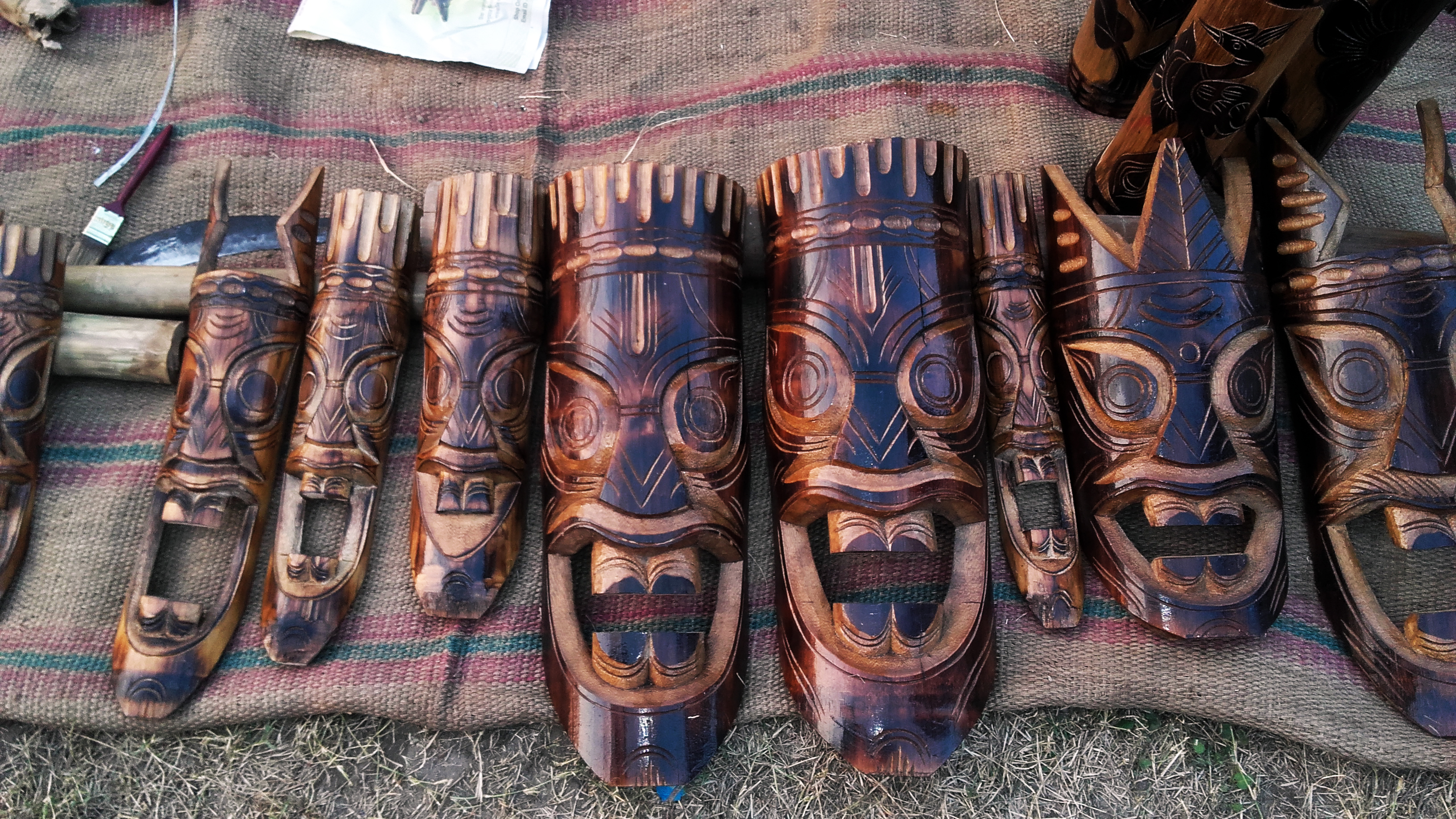 Bamboo mask of West Bengal, Sabala Mela, Kolkata